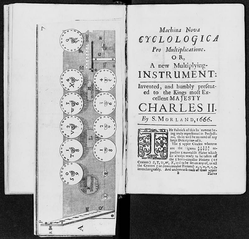 Calculating device invented by Samuel Morland (1625-1695). "Machina Nova Cyclogica pro Multiplicatione. Or, A new Multiplying Instrument." Illustration in: "The description and use of two arithmetick instruments", London : Printed by M. Pitt, 1673.